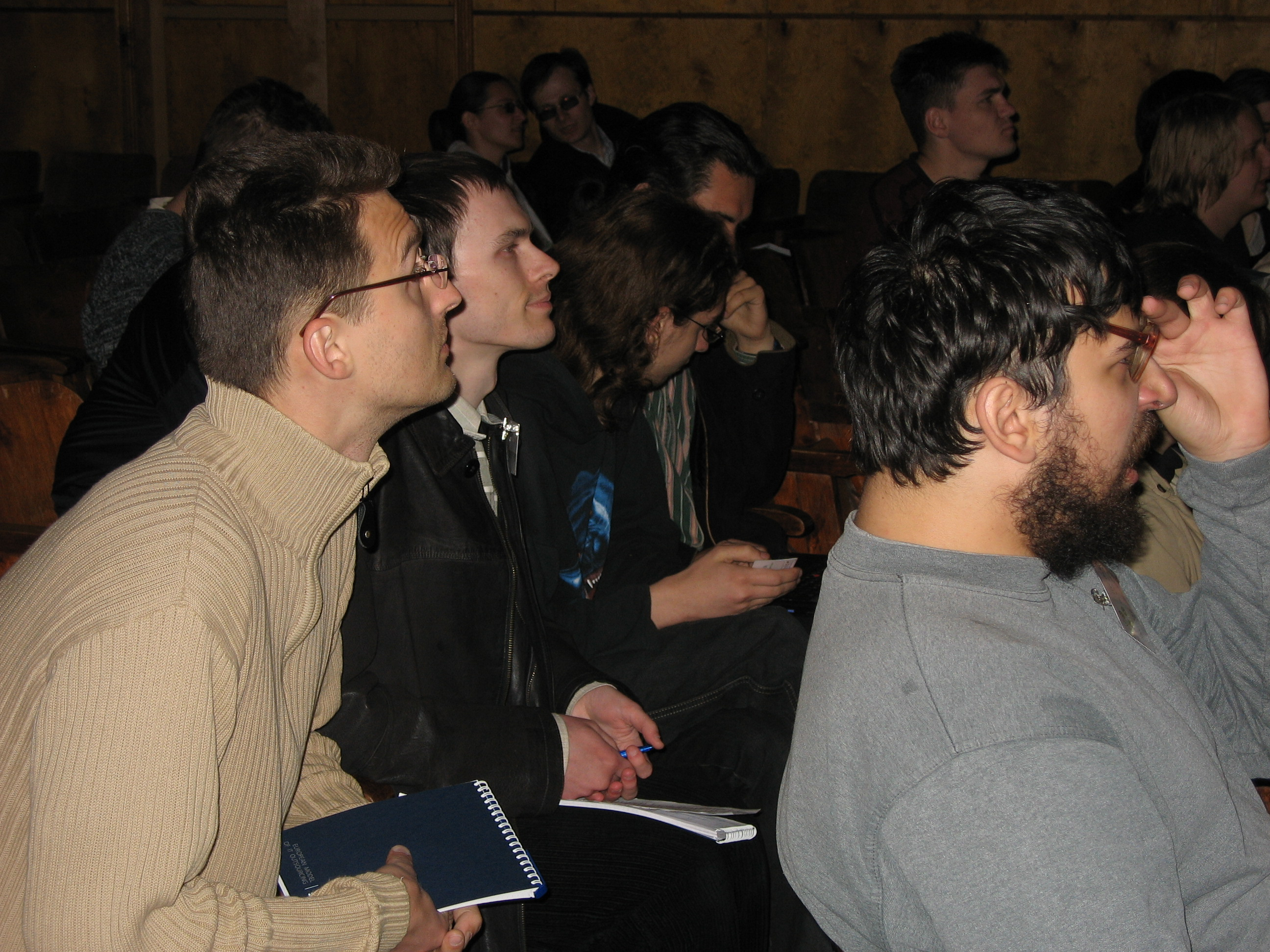 Participants of Linux Vacation / Eastern Europe 2006 conference held near Grodno, Belarus.